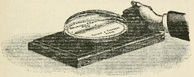 Sthenometer - an instrument designed by Paul Joire and claimed to meaure "nervous force" emitted by the human body